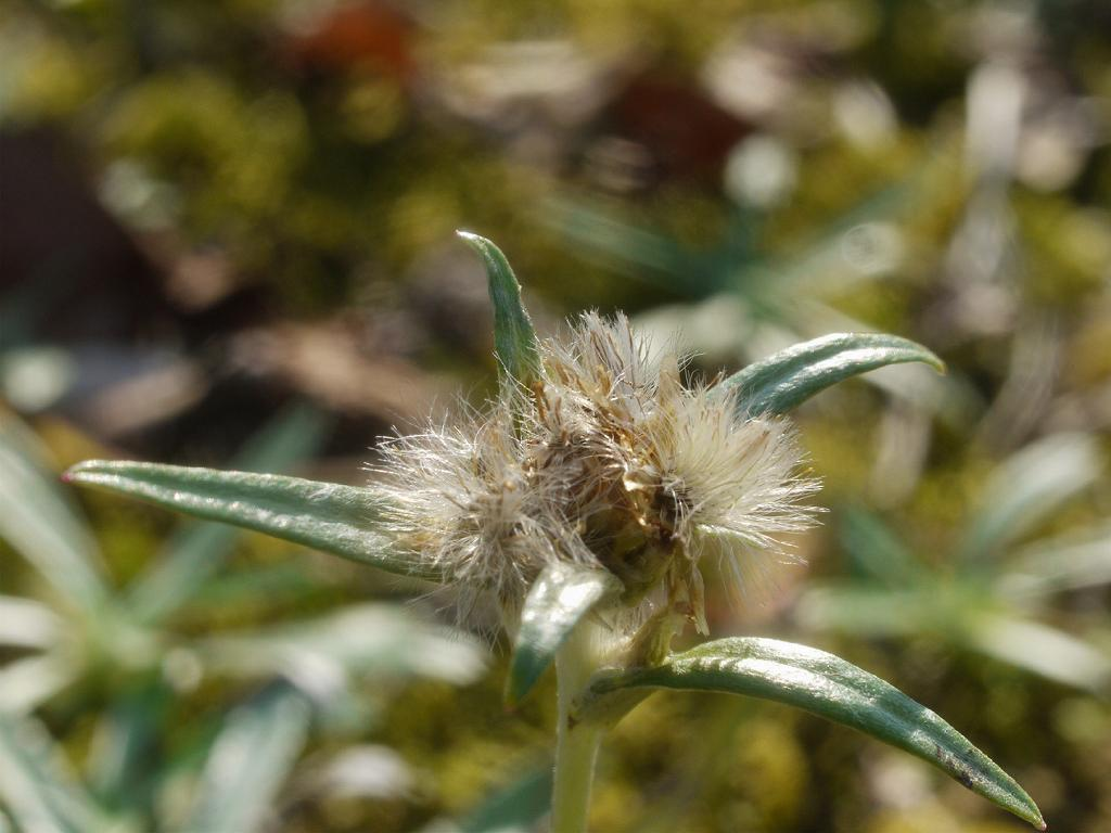 Gnaphalium japonicum(Asteraceae)